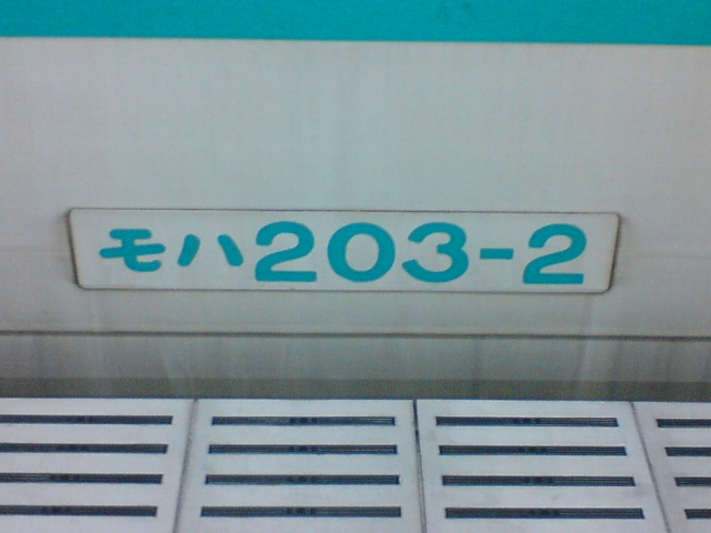 The serial number plate of JNR 203 (Train Mato 51, the pre-production train), taken at Yoyogi-koen Station